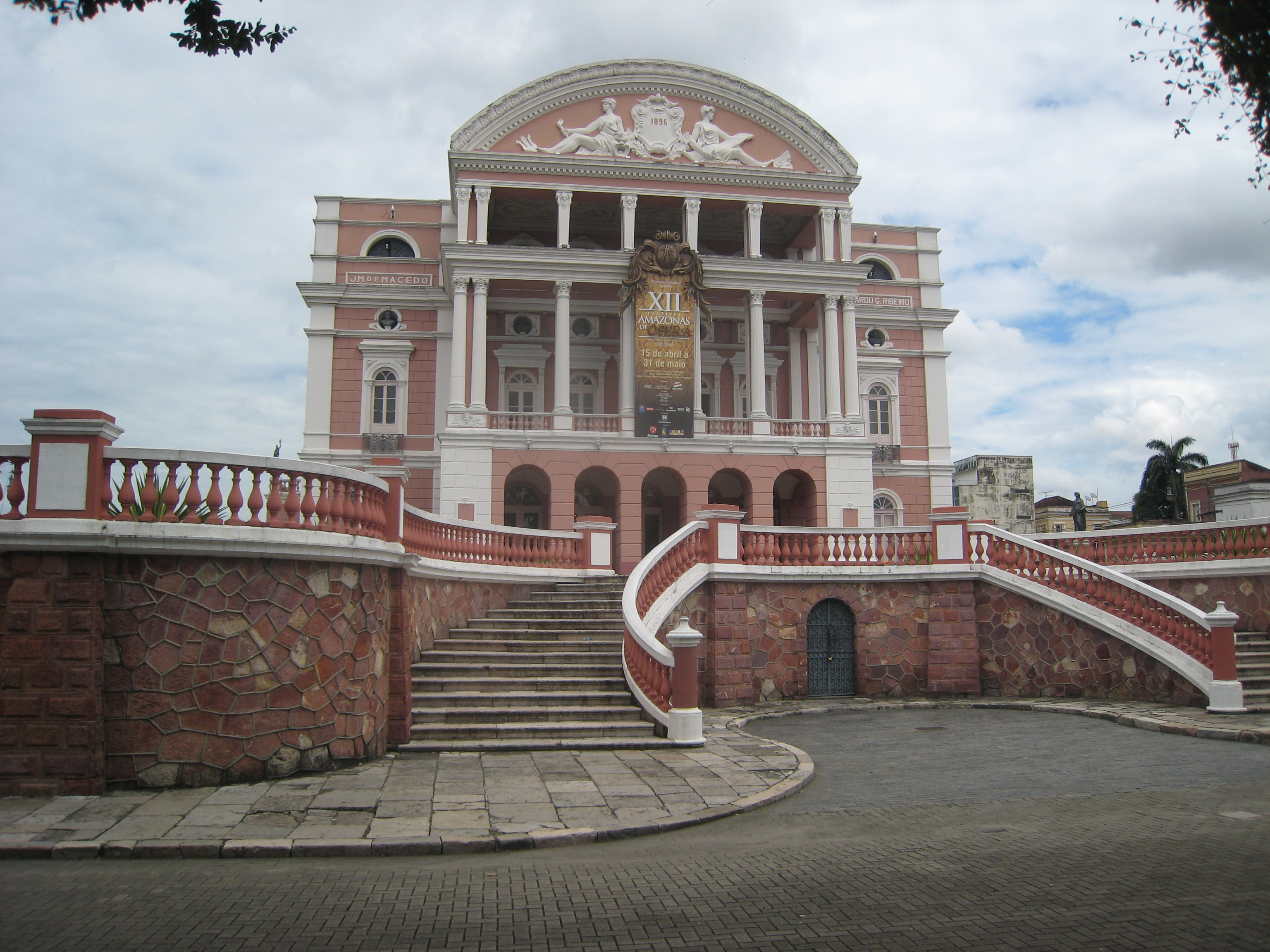 The Teatro Amazonas and the steps in front of it